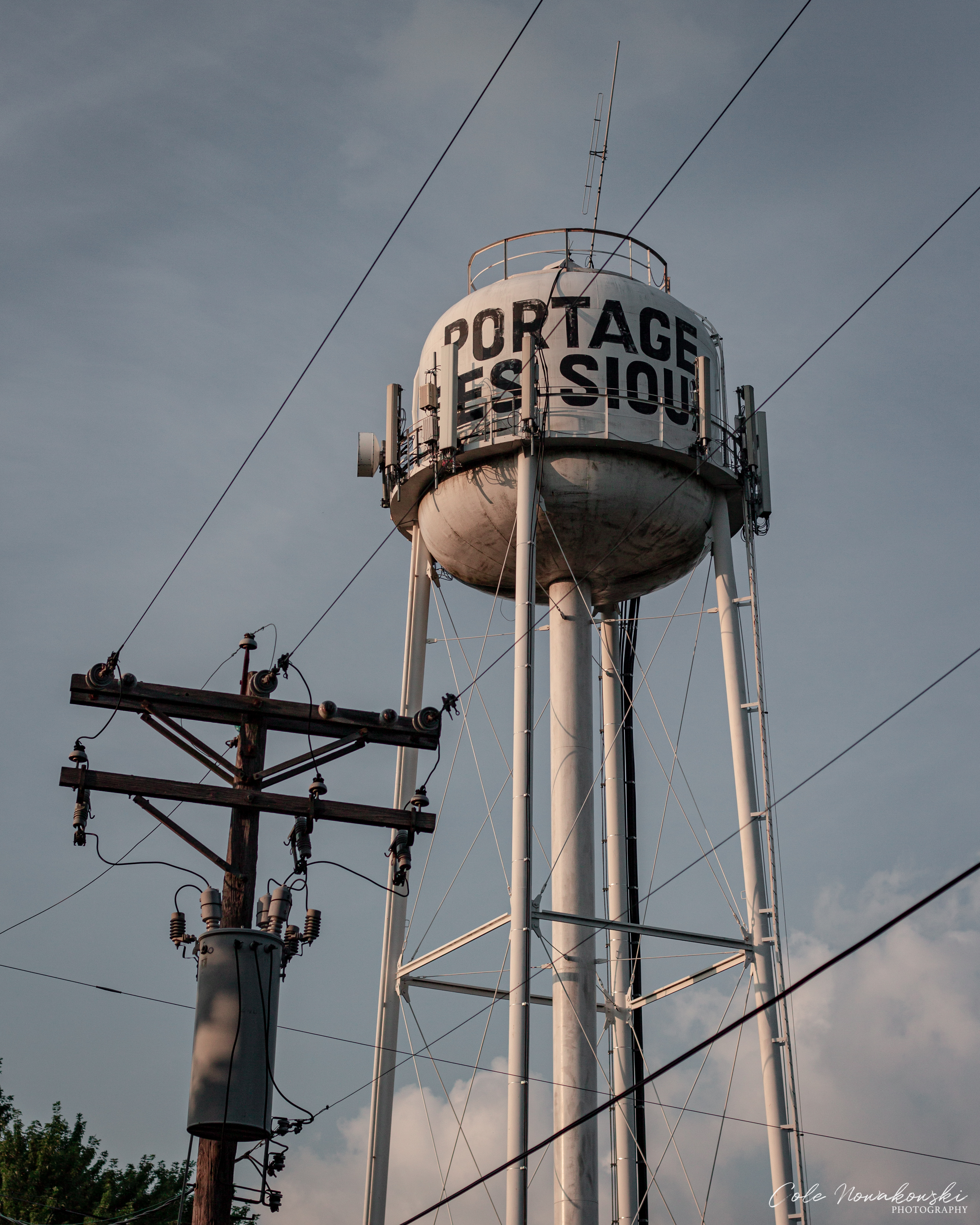 This water tower is located in the middle of the town. It provides potable water to the area.